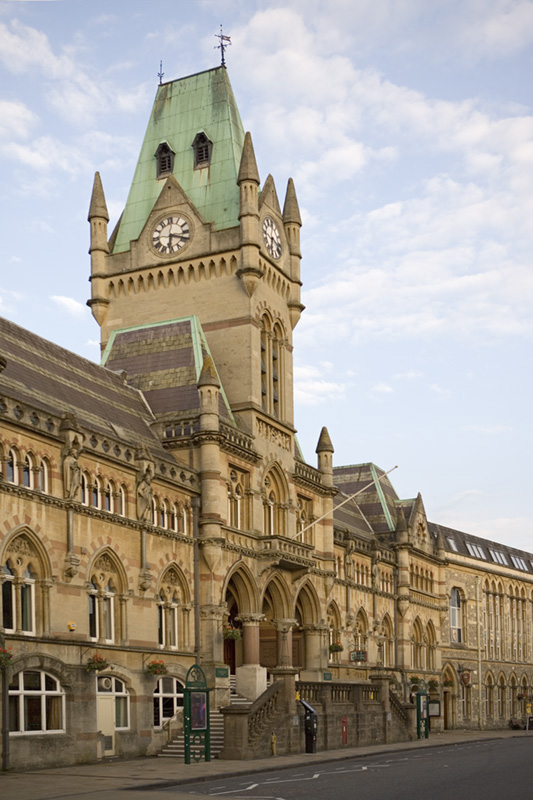 Winchester Guildhall 1871